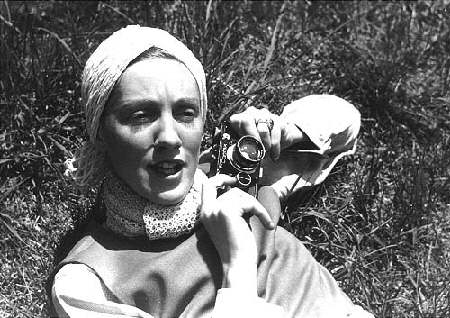 "I'd Rather Stalk with a Camera Than a Gun", photo of American photographer Toni Frissell, c. 1935.